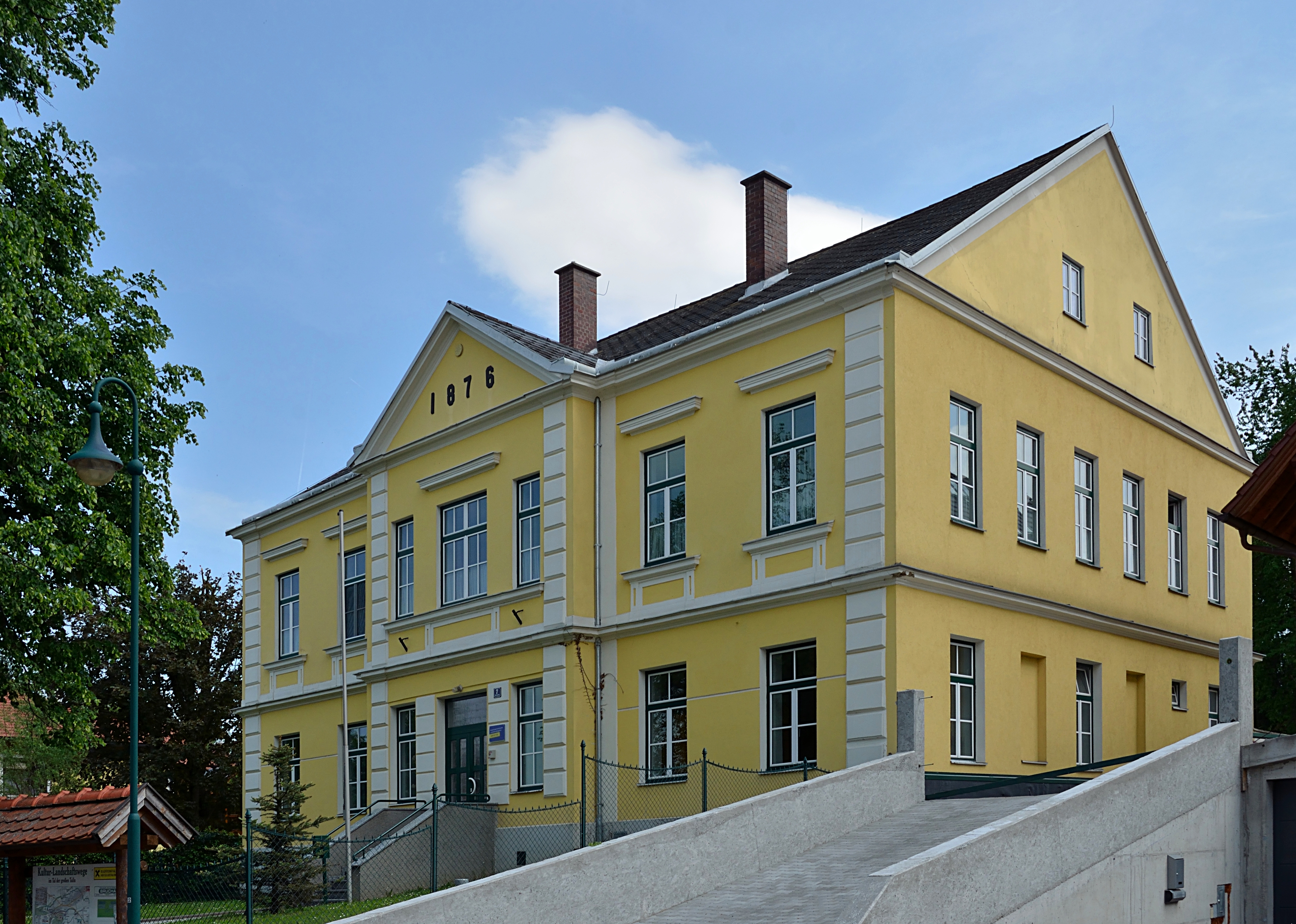 Former school in Abstetten, municipality of Sieghartskirchen, Lower Austria. Built in 1876, now nursery school.